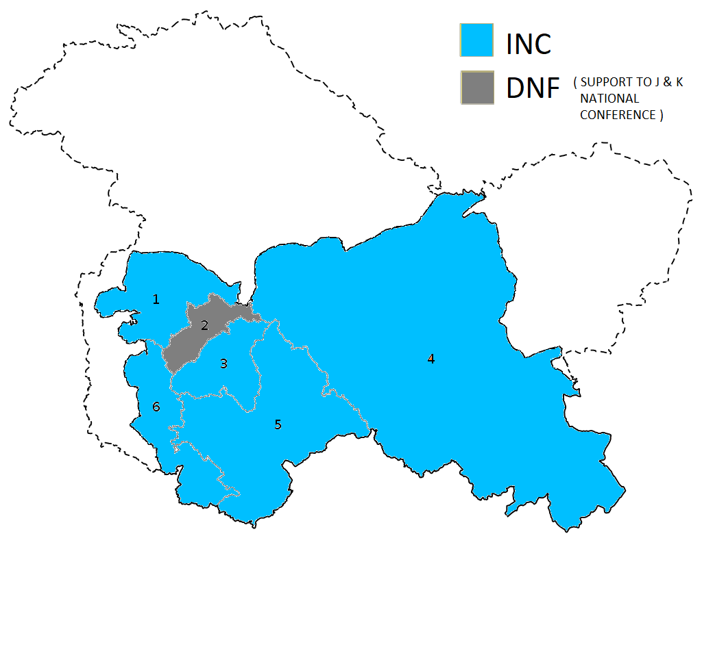 Seat Sharing of UPA in J & K in 2019 General Election